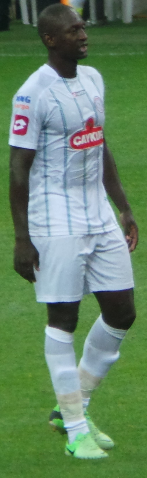 Ousmane Viera with Rizespor